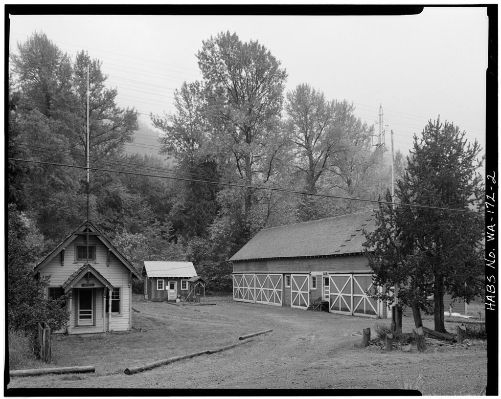 The Lester Guard Station, located near Lester, Washington, USA.